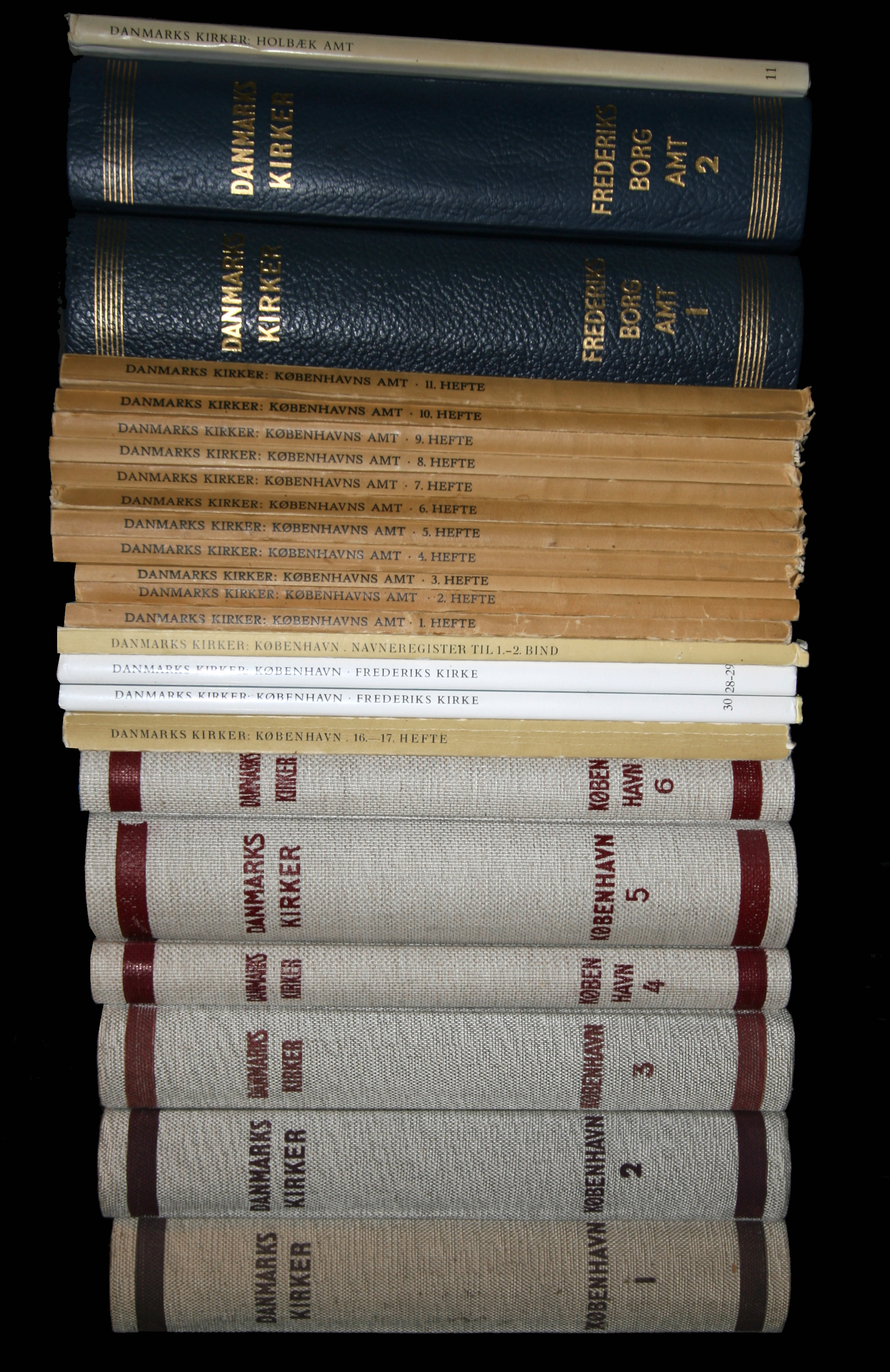 Churches of Denmark, a few of the many booklets and volumes published so far.